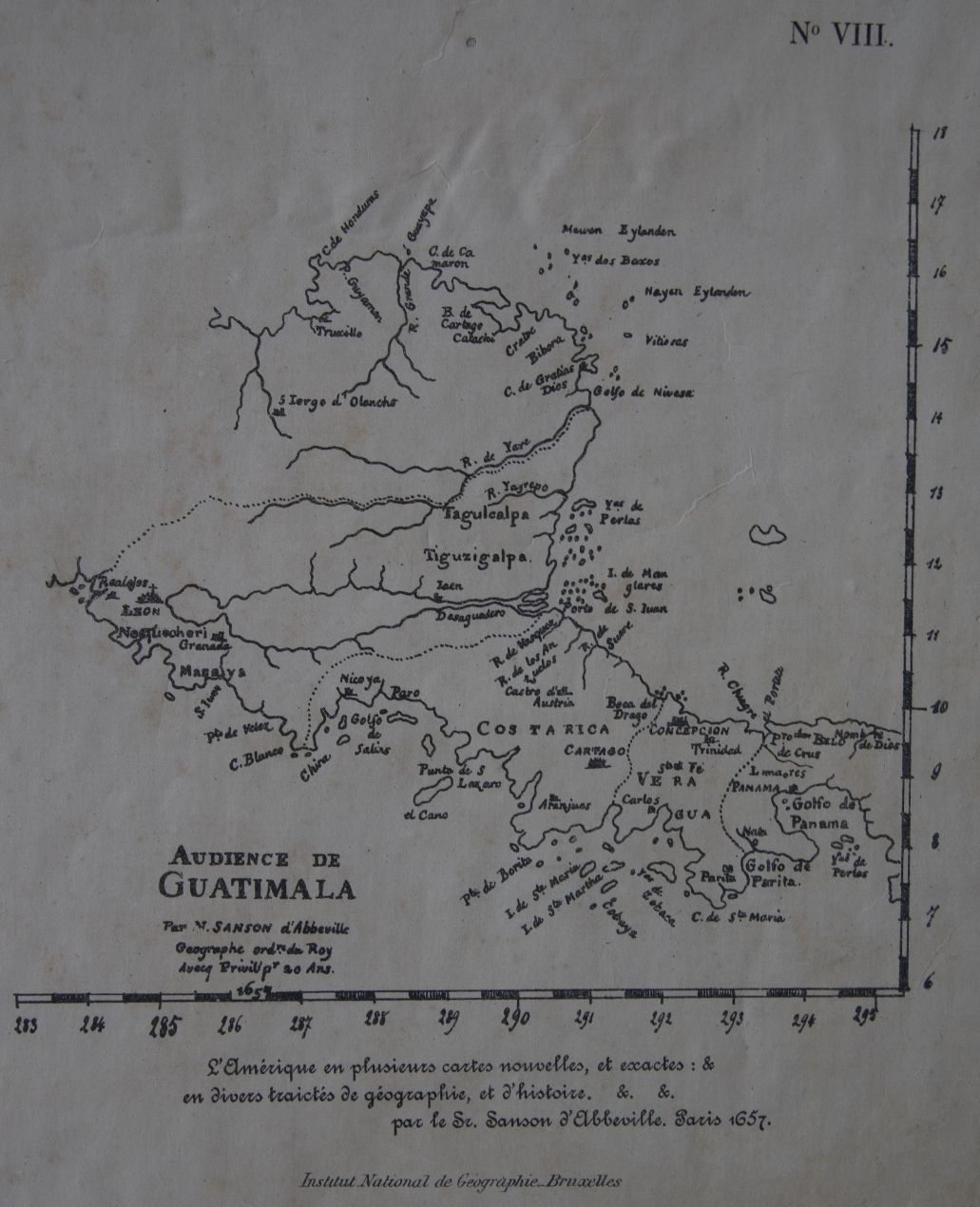 Map of the Audiencia de Guatemala with Costa Rica and Veragua borders, 1657